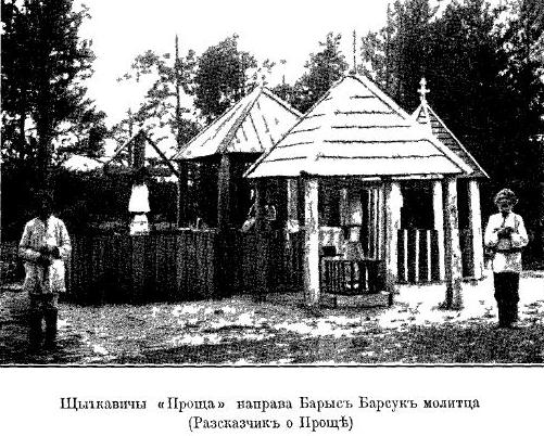 Holy spring in 1915, Russian Empire (now Staryja Darohi District, Belarus)